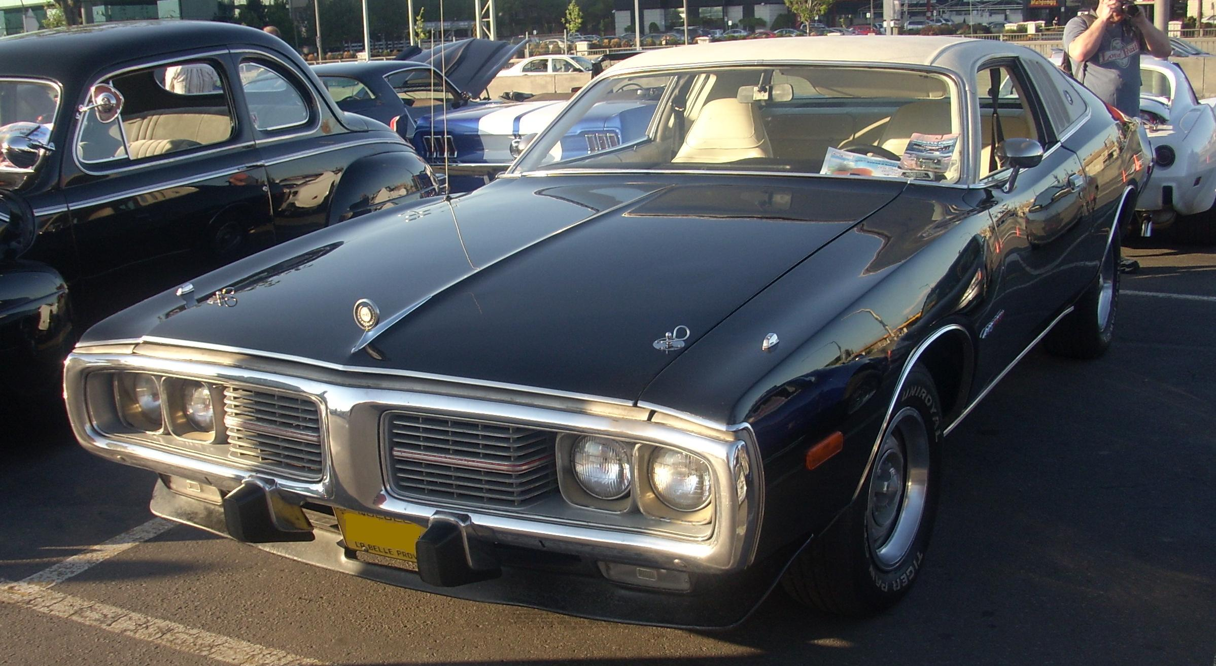 1974 Dodge Charger photographed in Montreal, Quebec, Canada at Gibeau Orange Julep.